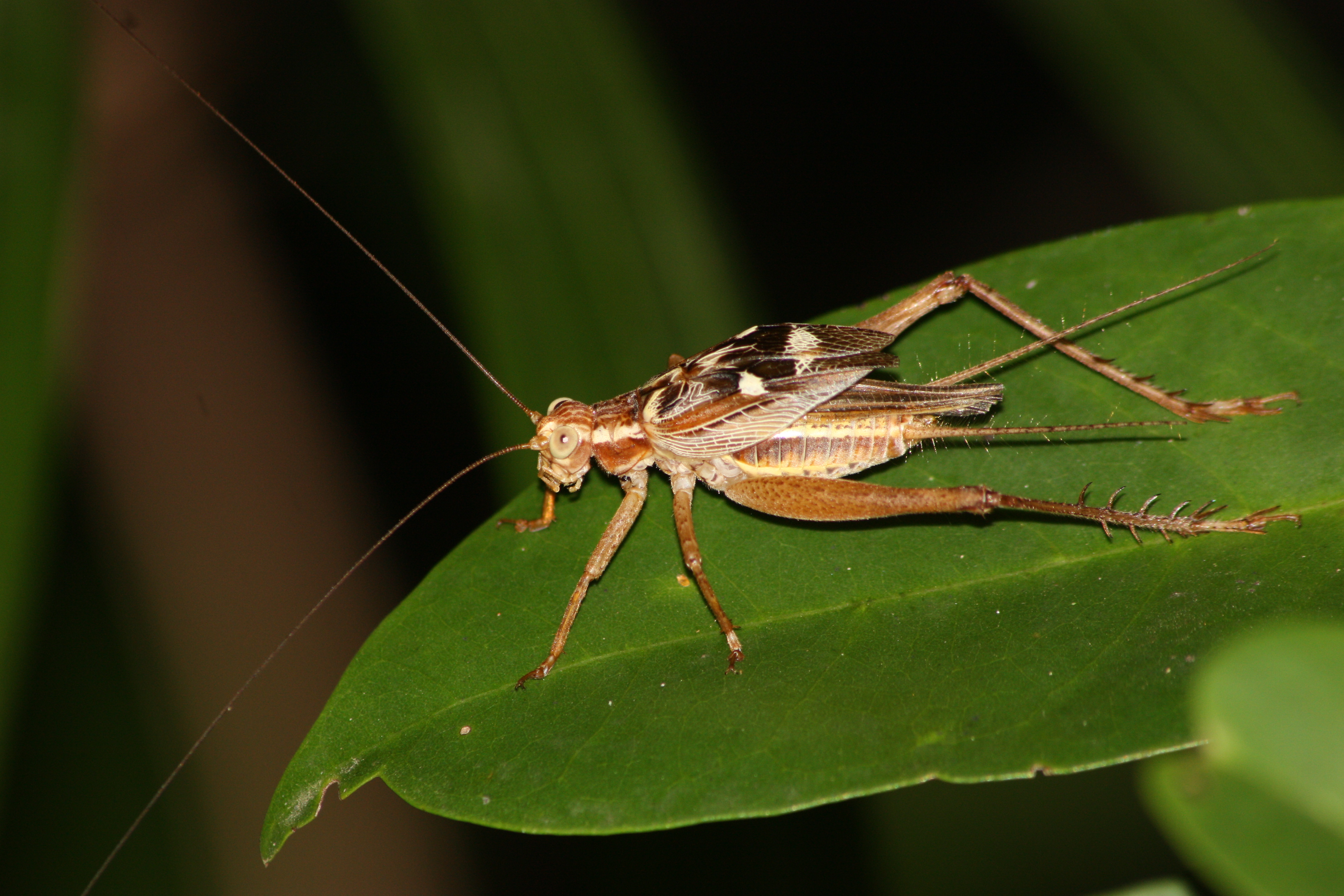 One Cardiodactylus novaeguineae at night in Eastern New-Guinea